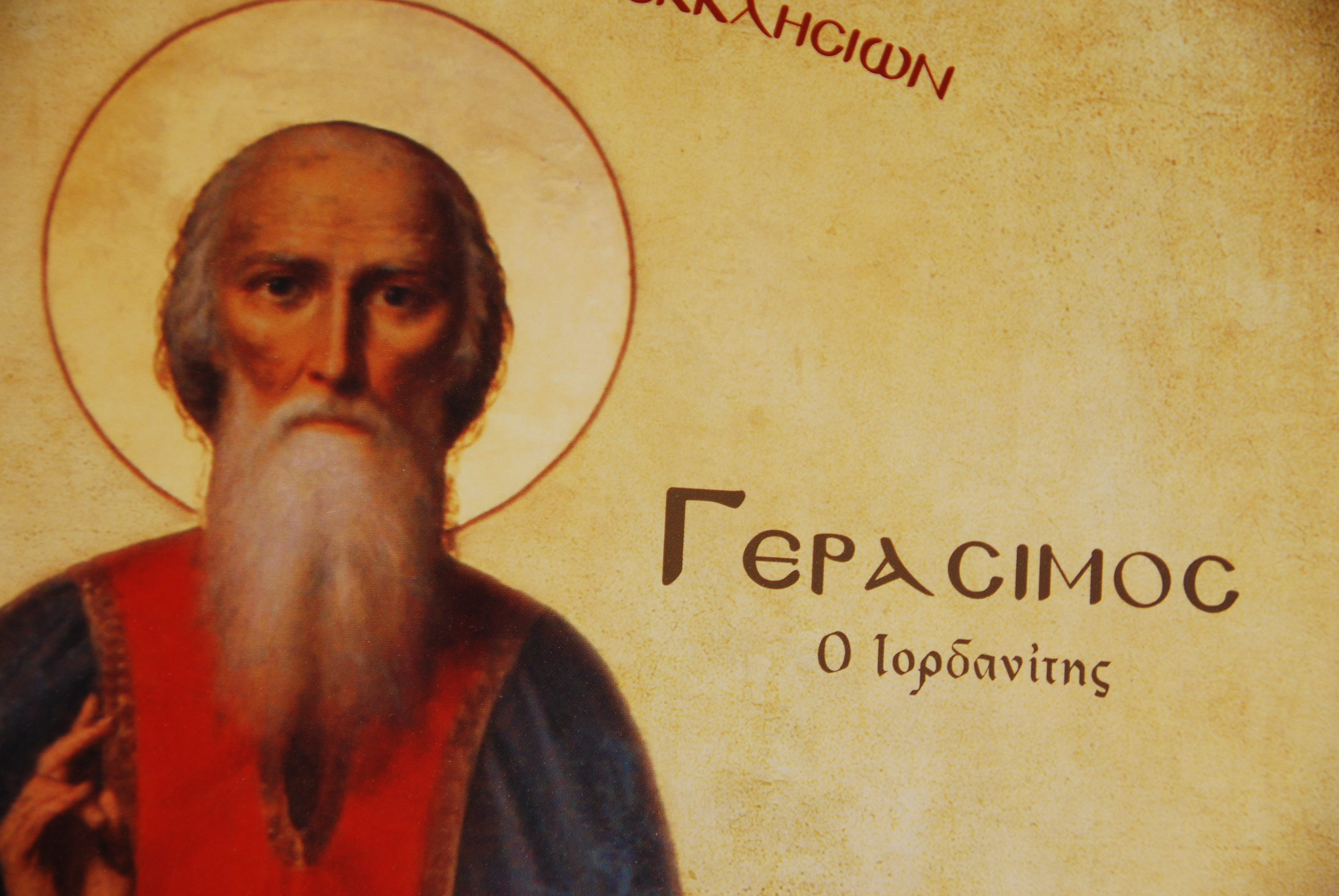 Gerasimus, an abot in palestine